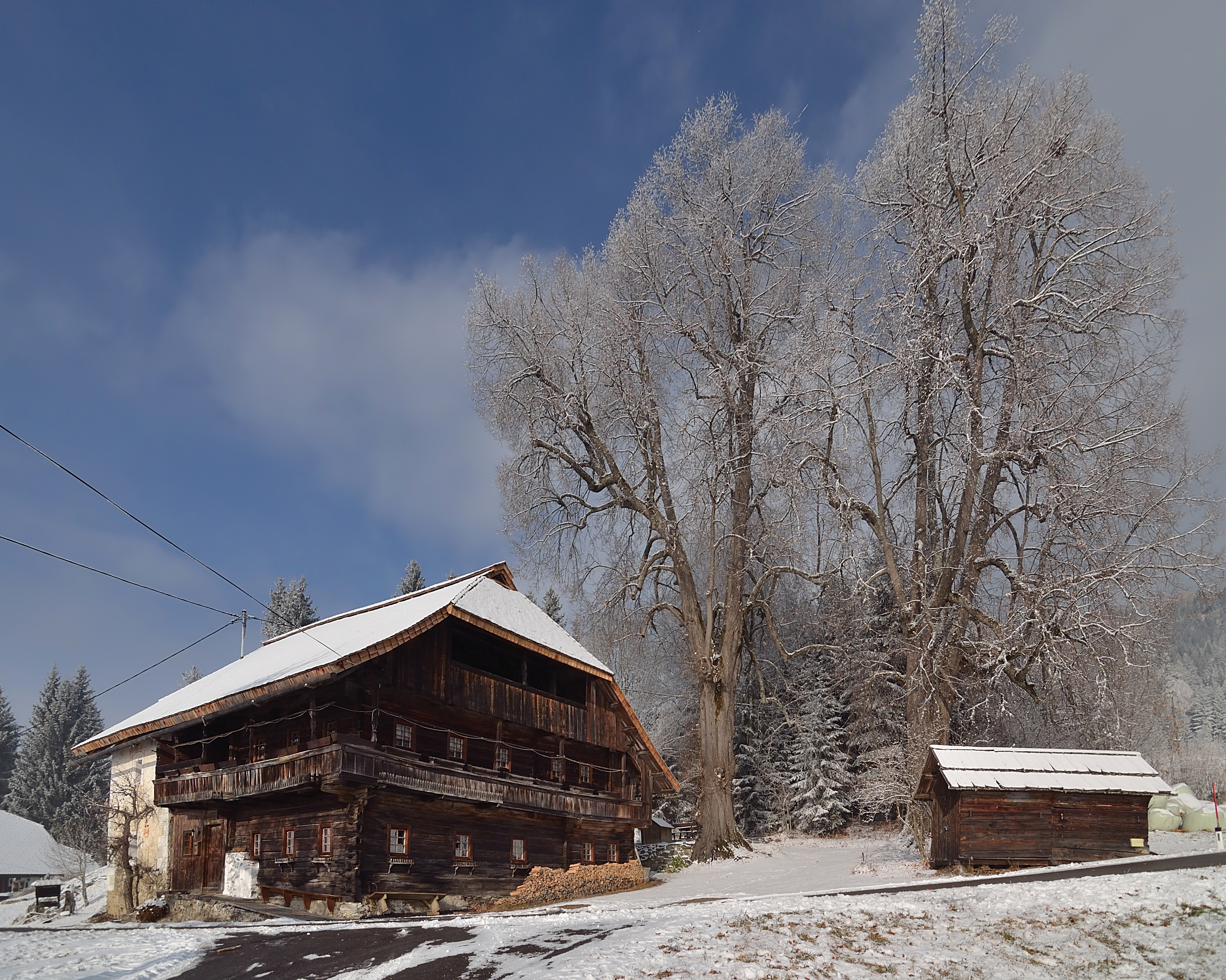 Farmhouse Gnesner (Kneser), Mooswald 86, Fresach